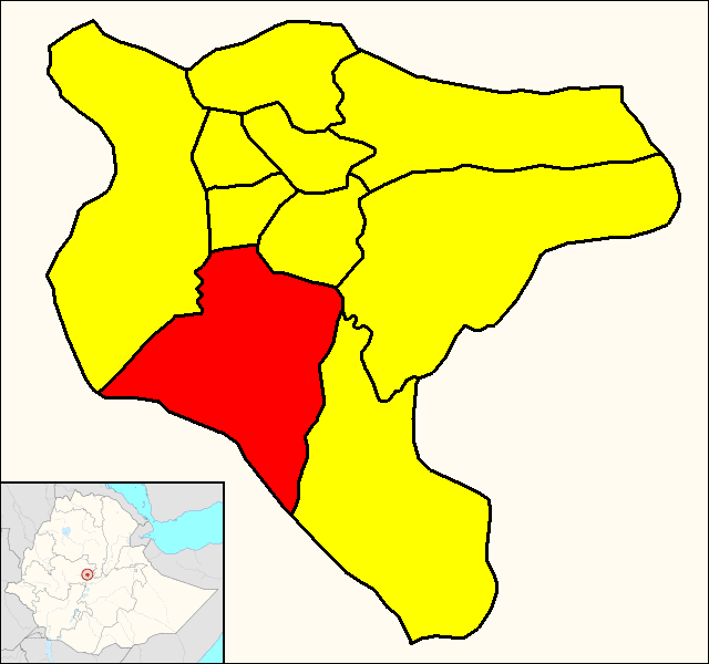 Map of the district (subcity) of Nifas Silk-Lafto (shown in red) within the city of Addis Ababa (yellow).